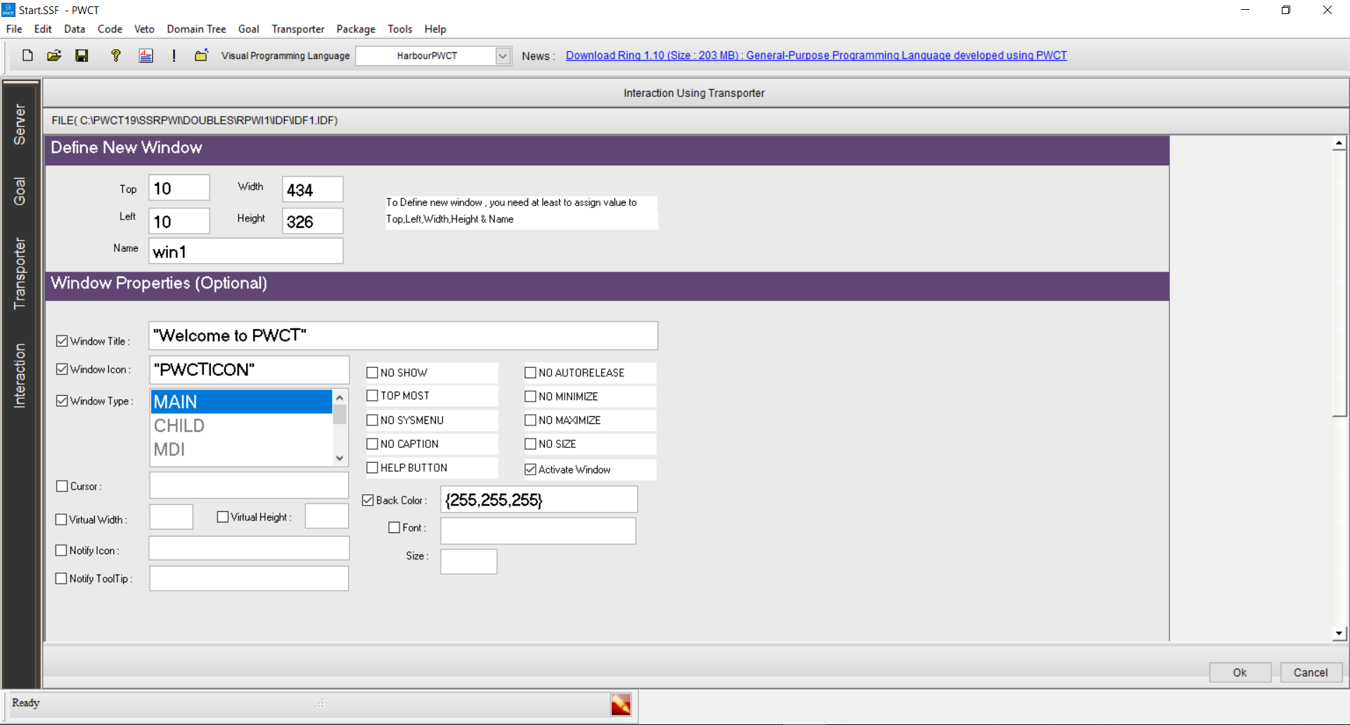 PWCT 1.9 - Data Entry Forms